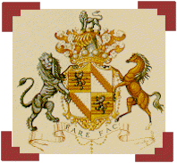 The coat of arms of Thomas Fairfax, 6th Baron Fairfax of Cameron (1693–1781), which became the emblem of the County of Fairfax, Virginia, USA.